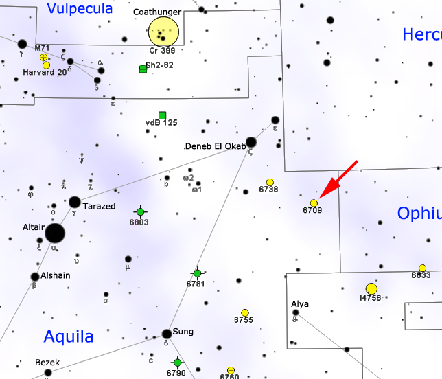 Map of NGC 6709